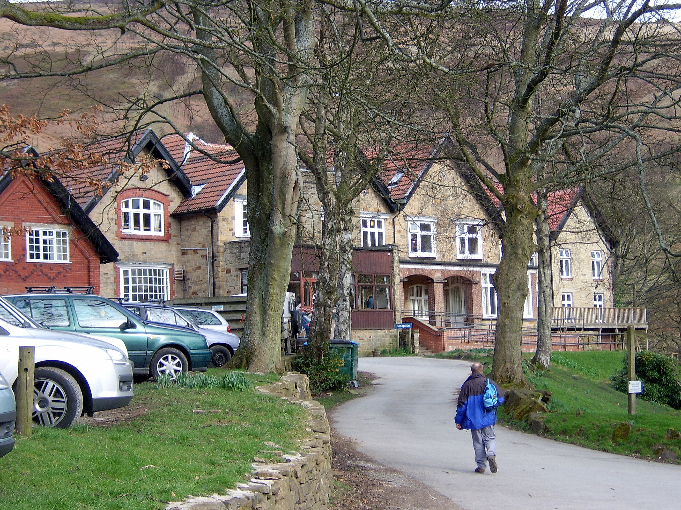 This is Edale Youth Hostel, Derbyshire ... where we stayed.